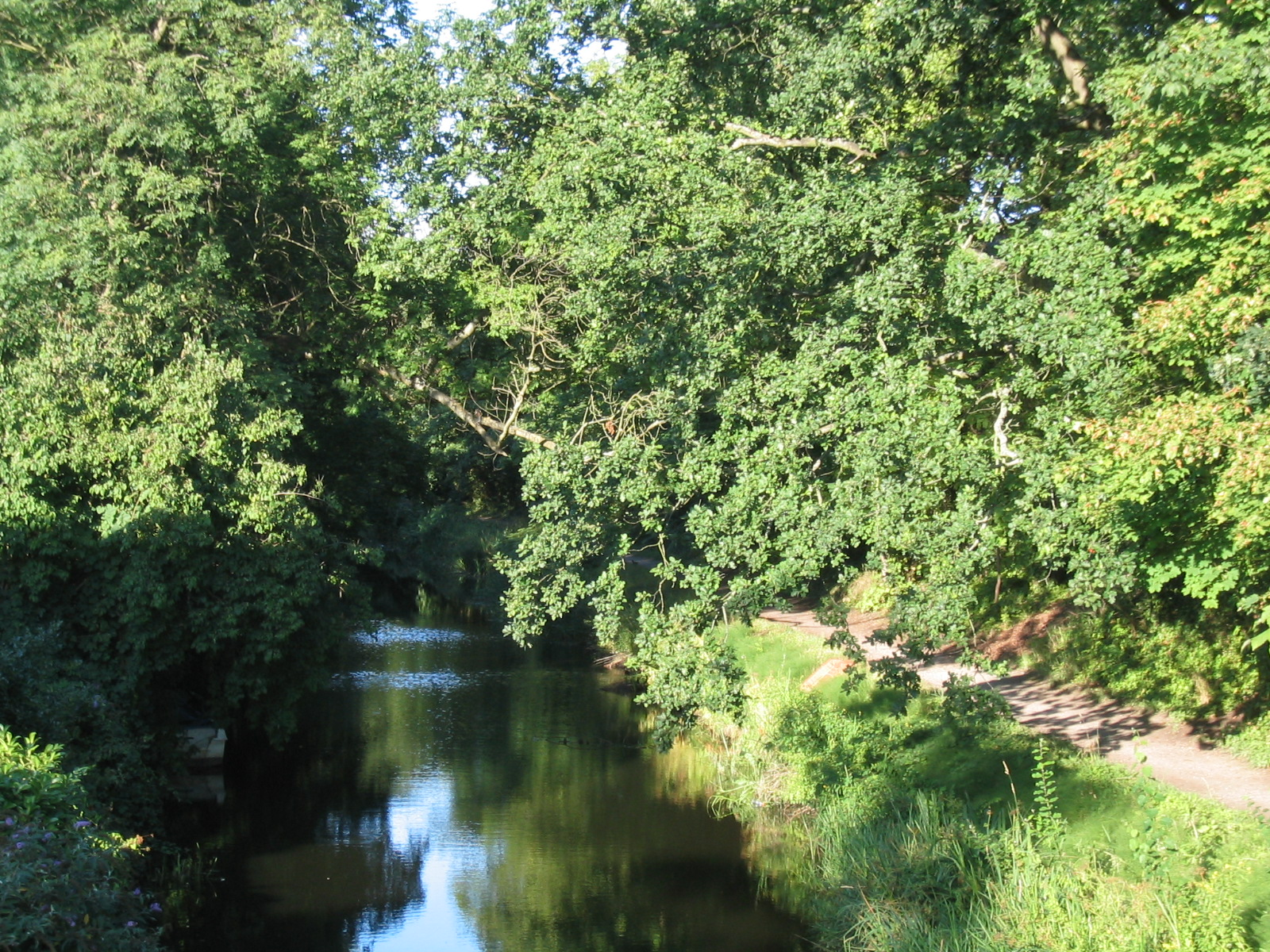 The Basingstoke Canal passing through Woking, Surrey, UK. Photo taken by me 2005-08-21.